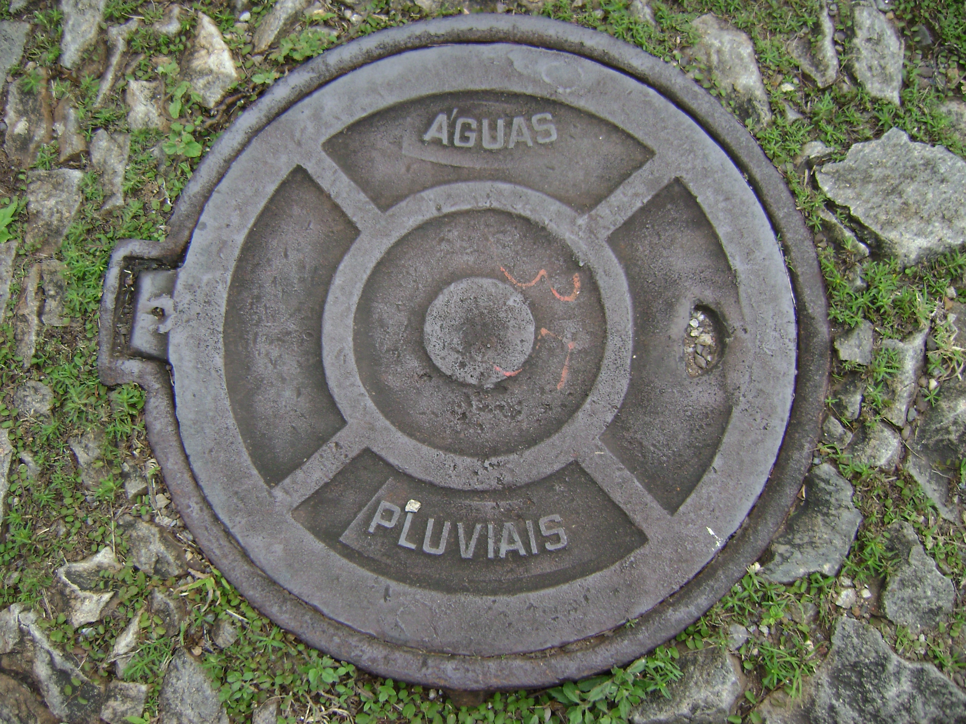 Manhole in Alcides Pereira Lima street, in Mangabeiras neighborhood, in Belo Horizonte, Brazil.